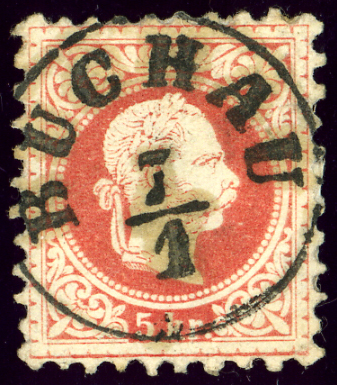 Austrian KK stamp, issue 1874, cancelled at BUCHAU (Bochov), Bohemia